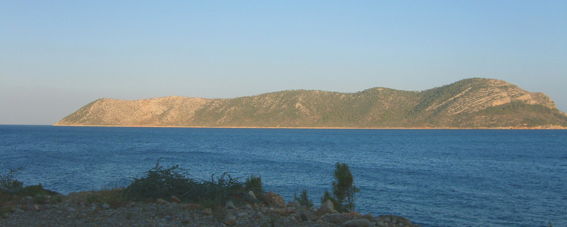 Dana ada